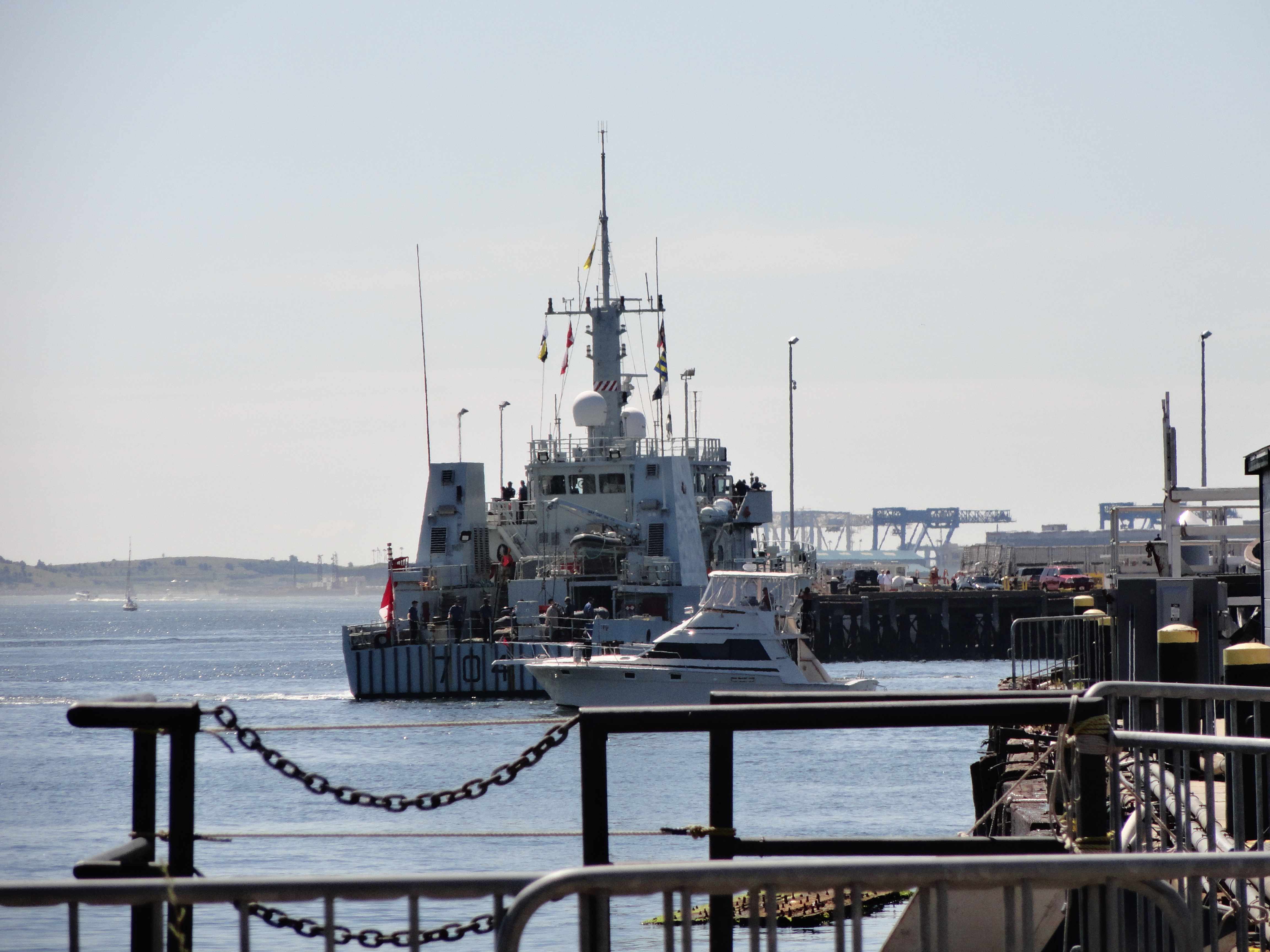 HMCS Shawinigan in Boston Harbor.